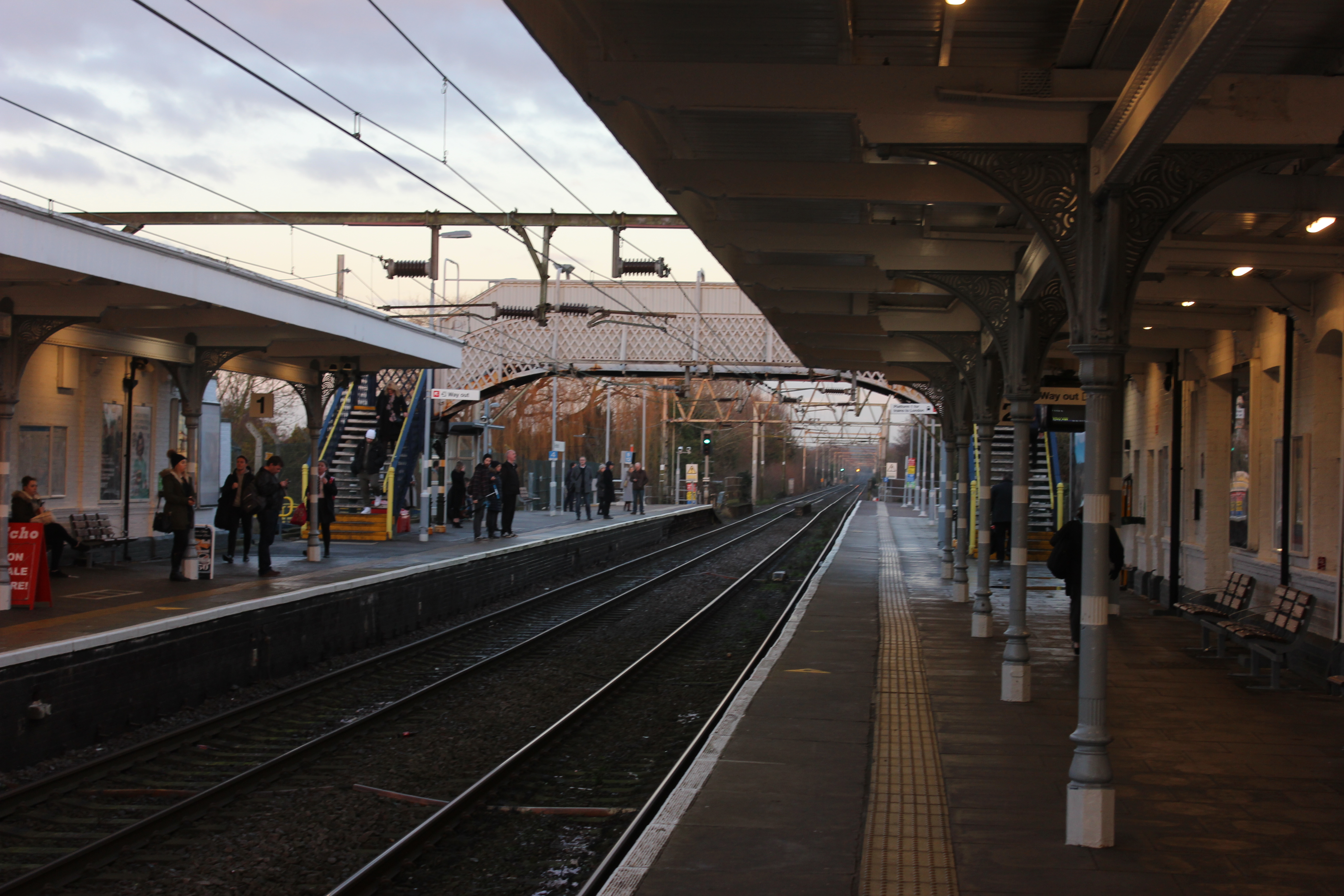 Rochford station looking north